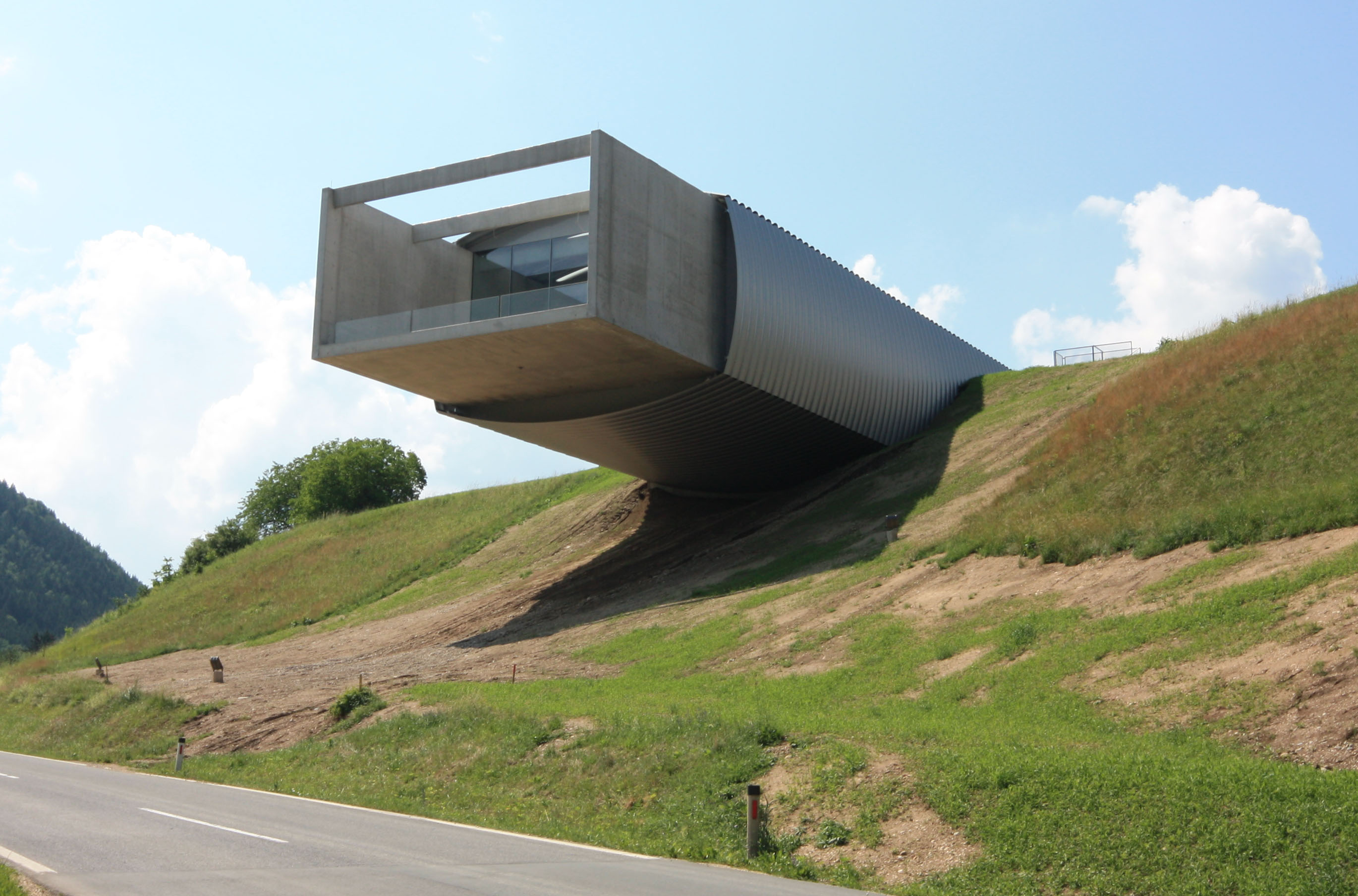 Liaunig-Museum in Neuhaus/Suha, Carinthia